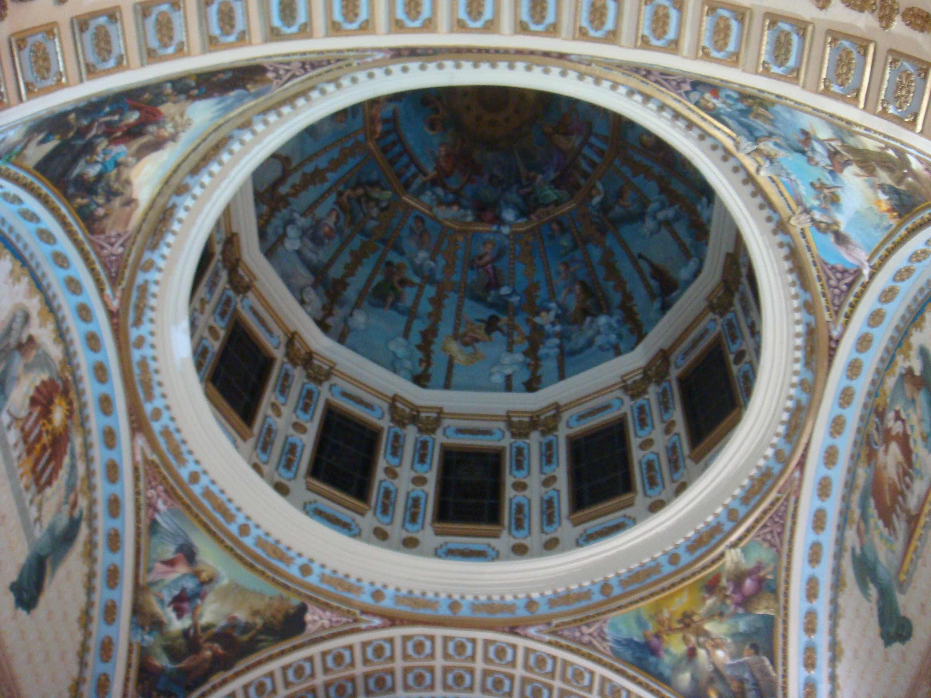 The view from inside the Summit Church's Main Administration of Campos